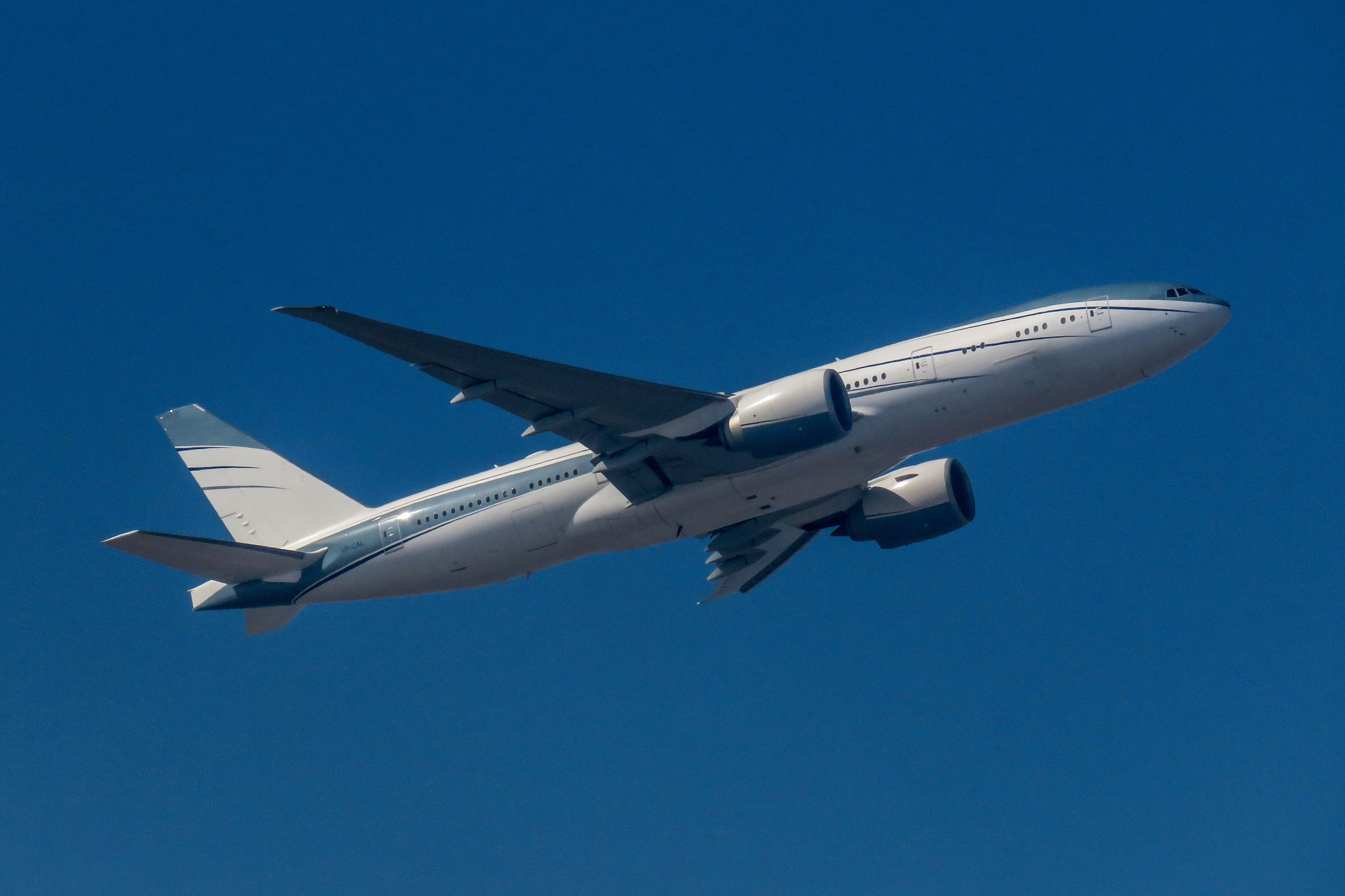 CMR001 to Shanghai Hongqiao. But it departed Shanghai again in the afternoon, so what did Paul Biya do in Shanghai? Just had a basket of steamed buns at SHA?